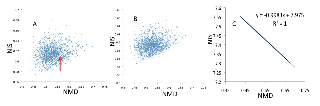 IsoRes